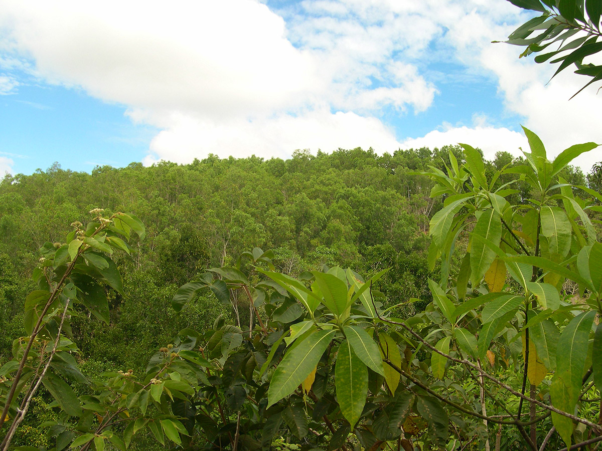 Greenery on Guimaras Island, Philippines